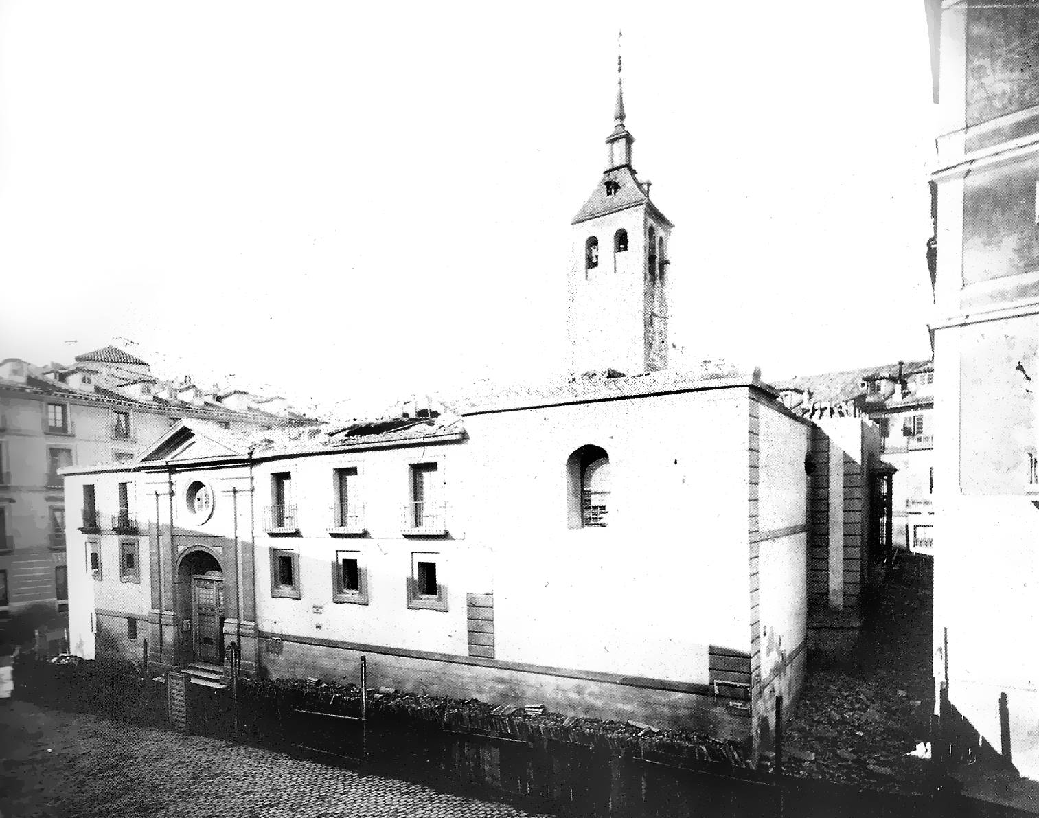 Santa María de la Almudena church in 1869 prior to its demolition.